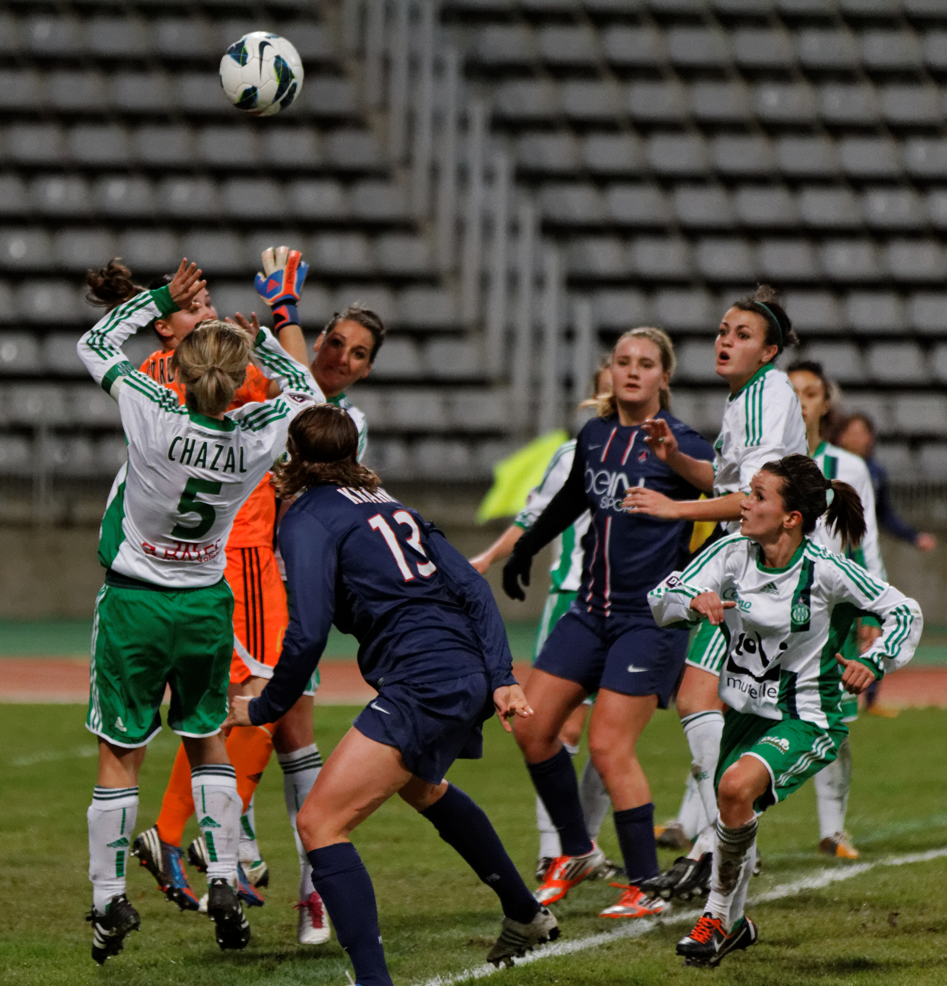 PSG-AS Saint-Étienne, december 16th, 2012.